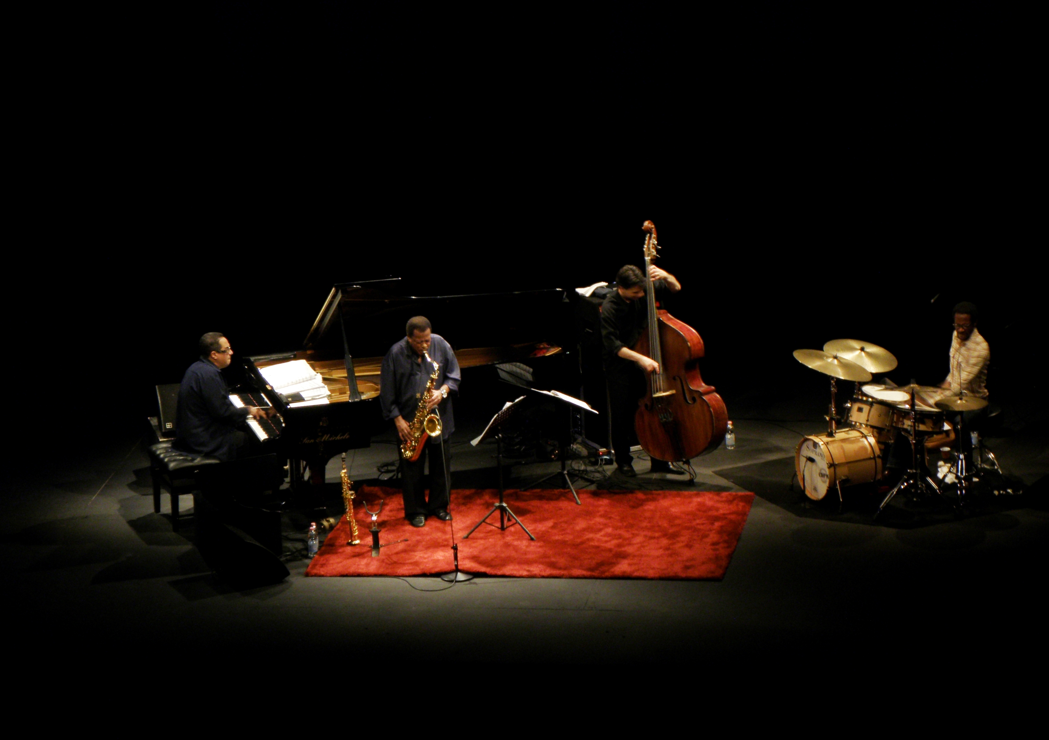 The Wayne Shorter quartet, composed by Danilo Perez (piano), Wayne Shorter (saxophone), John Patitucci (double bass) and Brian Blade (drum set), at their concert in the Teatro degli Arcimboldi, Milano, on the 28th June 2010.